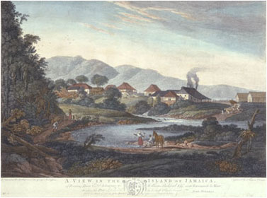 A View in the Island of Jamaica, of Roaring River Estate belonging to William Beckford Esq. near Savannah la Marr, published by John Boydell, Cheapside, 25 March en:1778 Artist: George Robertson Engraver: Thomas Vivares